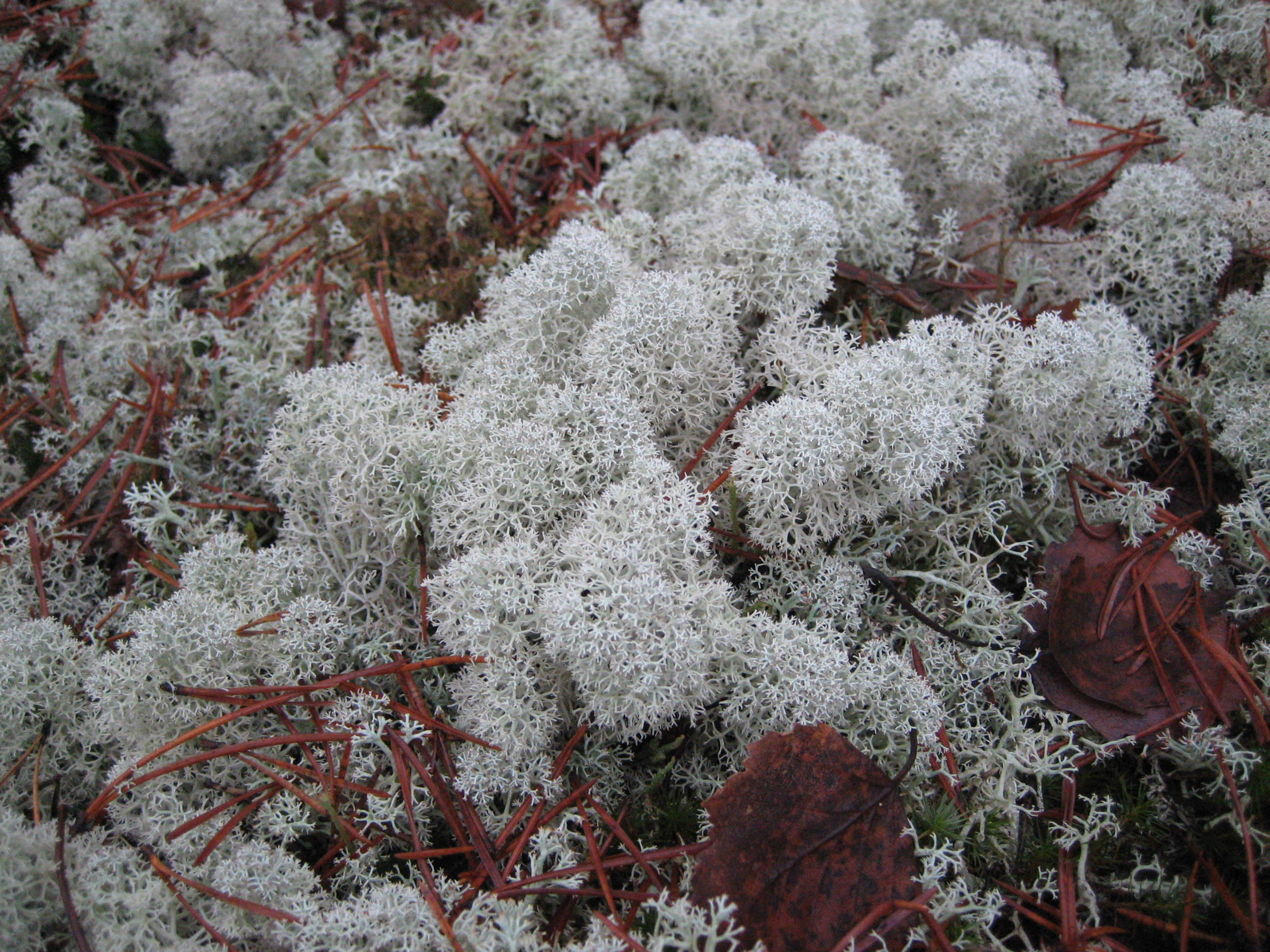 Cladonia stellaris in Northern Satakunta, Finland. In addition, there are a few minor growths of Cladonia rangiferina and dead needles of Scots pine (Pinus sylvestris) and leaves of common aspen (Populus tremula).